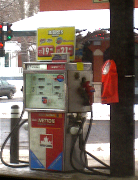 Gas pump in Petro-Canada station. Photo by user:gene.arboit